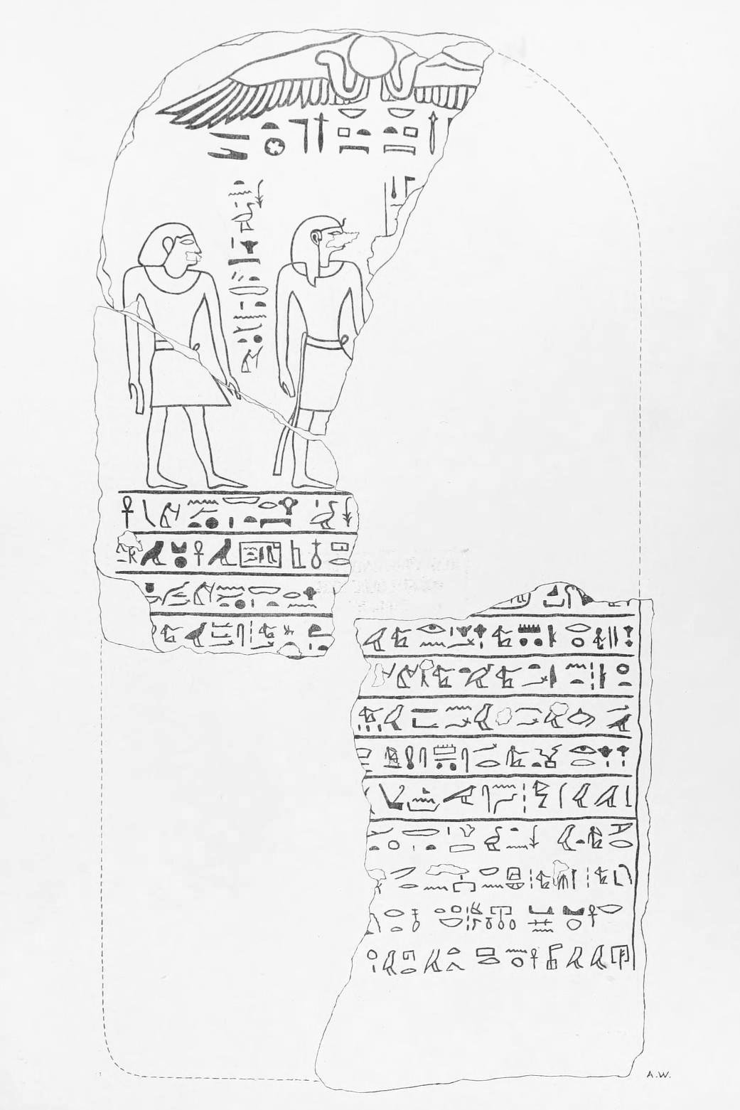 Drawing of a broken stele of pharaoh Nubkheperre Intef, followed by the king's son, head of the bowmen, Nakht. Limestone, from the Temple of Osiris in Abydos, 17th Dynasty.